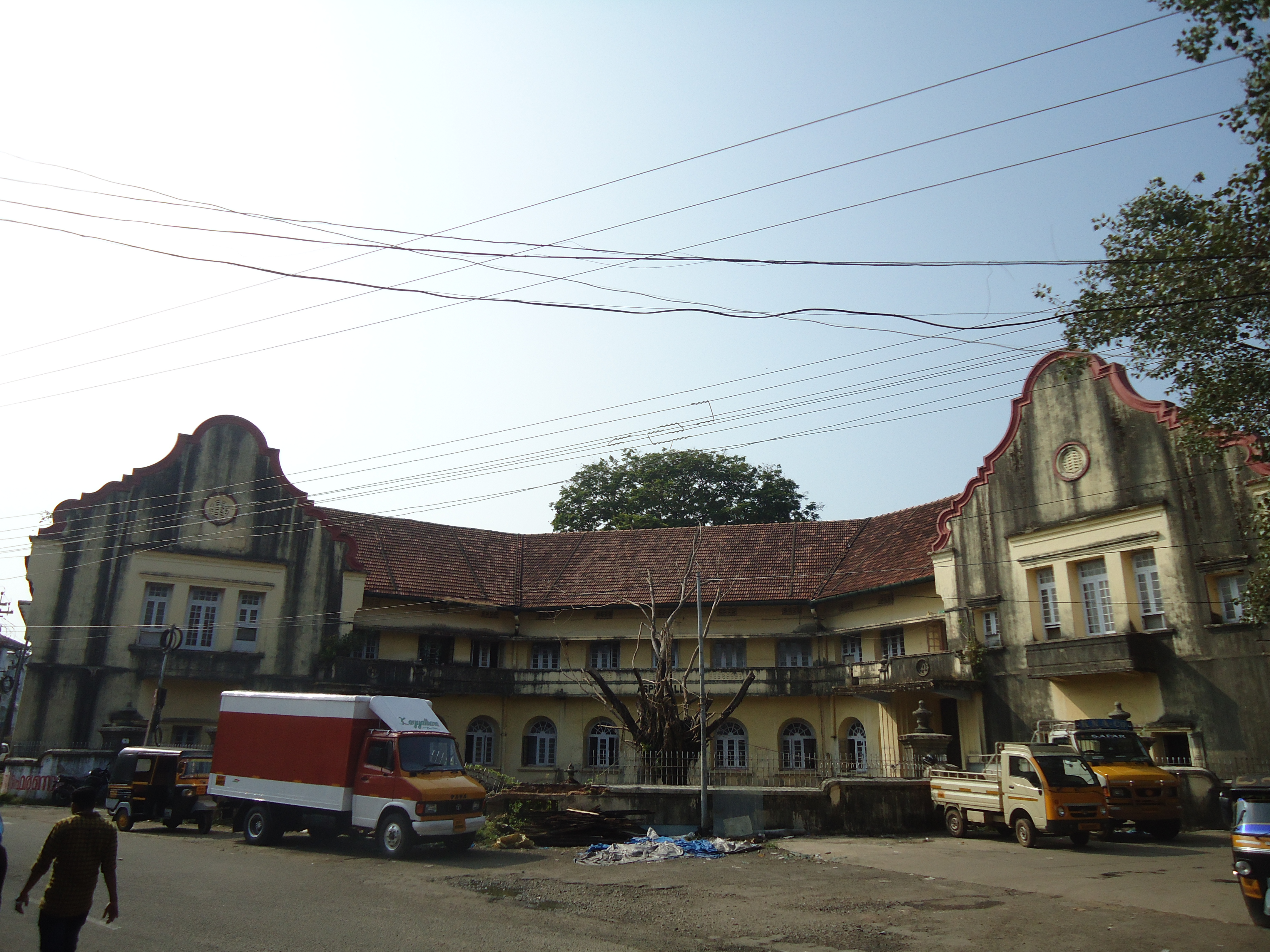 Wiki Hackathon Photo Walk Photos AspinWall House Fort Kochi